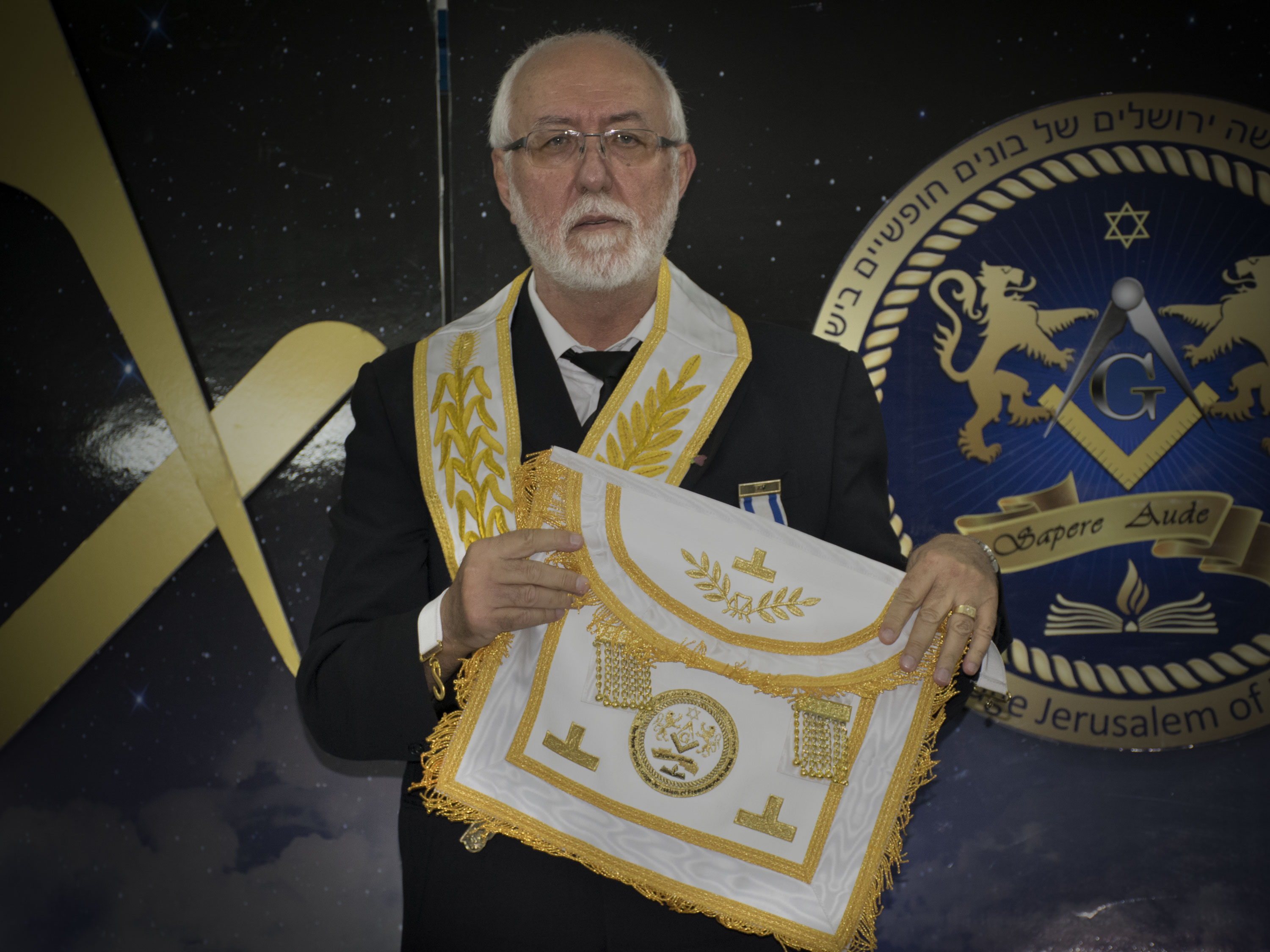 Rafi Primo, Free mason, lodge master of Meorot Lodge in Israel